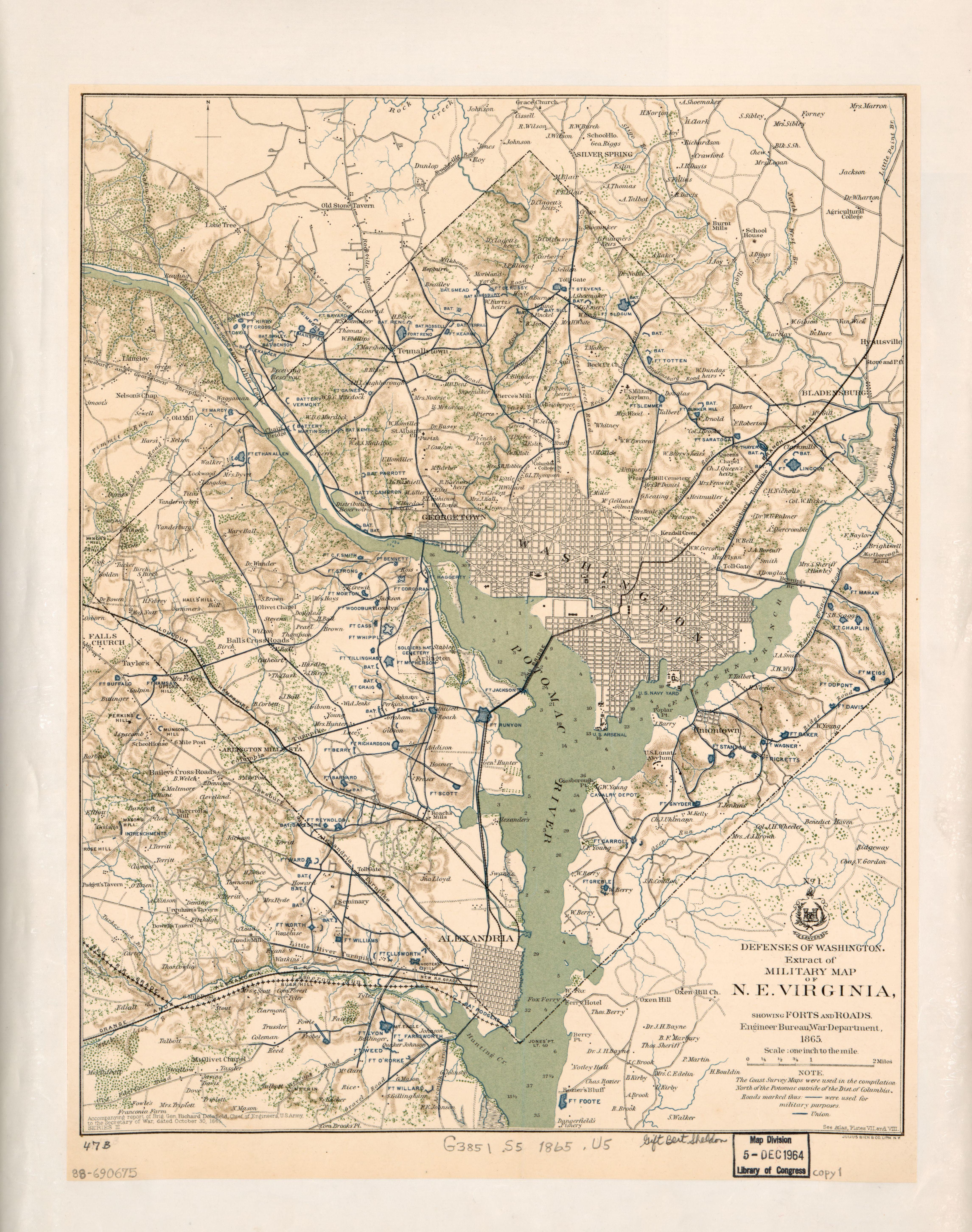 Relief shown by hachures. Depths shown by soundings. Also shows woods and householders' names in rural areas. In lower left corner: Accompanying report of Brig. Gen. Richard Delafield ... dated October 30, 1865, series III. From: Atlas to accompany the official records of the Union and Confederate Armies, Washington, 1891-1895, plate 89, map 1. In lower right corner: See Atlas, Plates VII. and VIII. Includes note and coat of arms. At head of coat of arms: No. 1. LC copy 1 laminated and mounted on cloth backing; copy 2 fold-lined and mounted on paper backing. Available also through the Library of Congress Web site as a raster image. 3 copies DCP